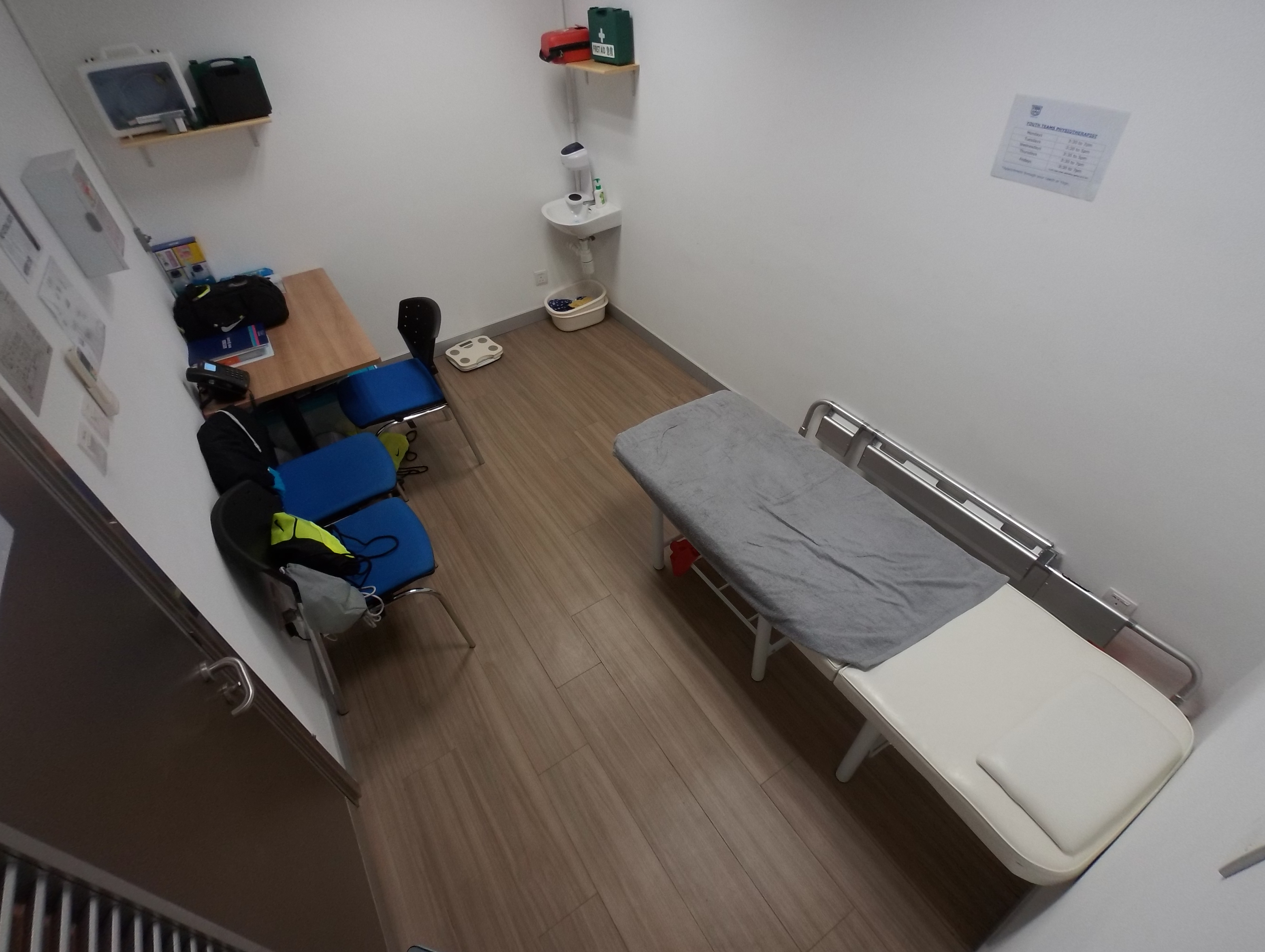 firstgym